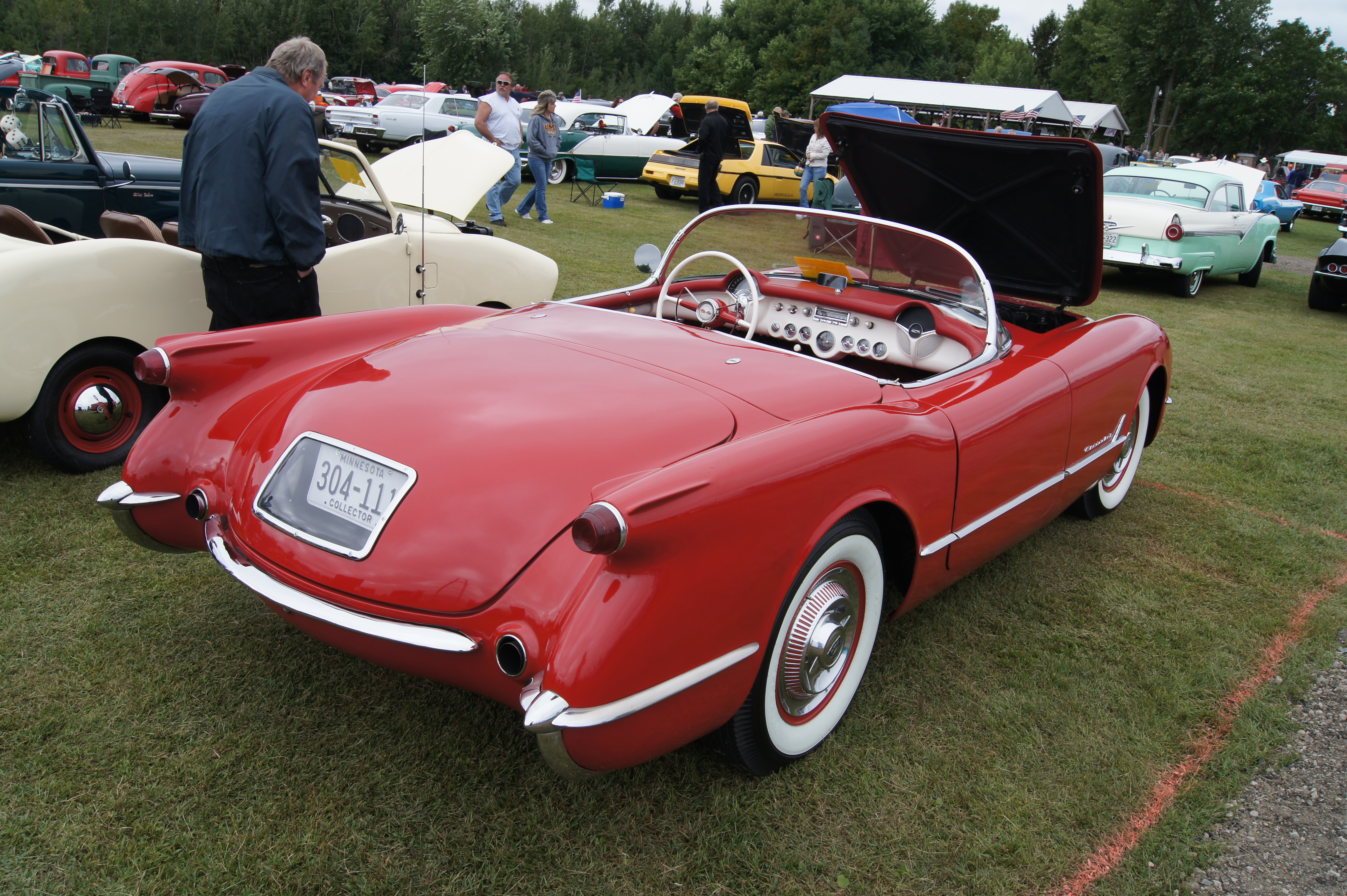 North Star Chapter Studebaker Drivers Club 13th Annual Labor Day Car Show September 2, 2013 Blacksmith Lounge Hugo, MN More Car Pictures